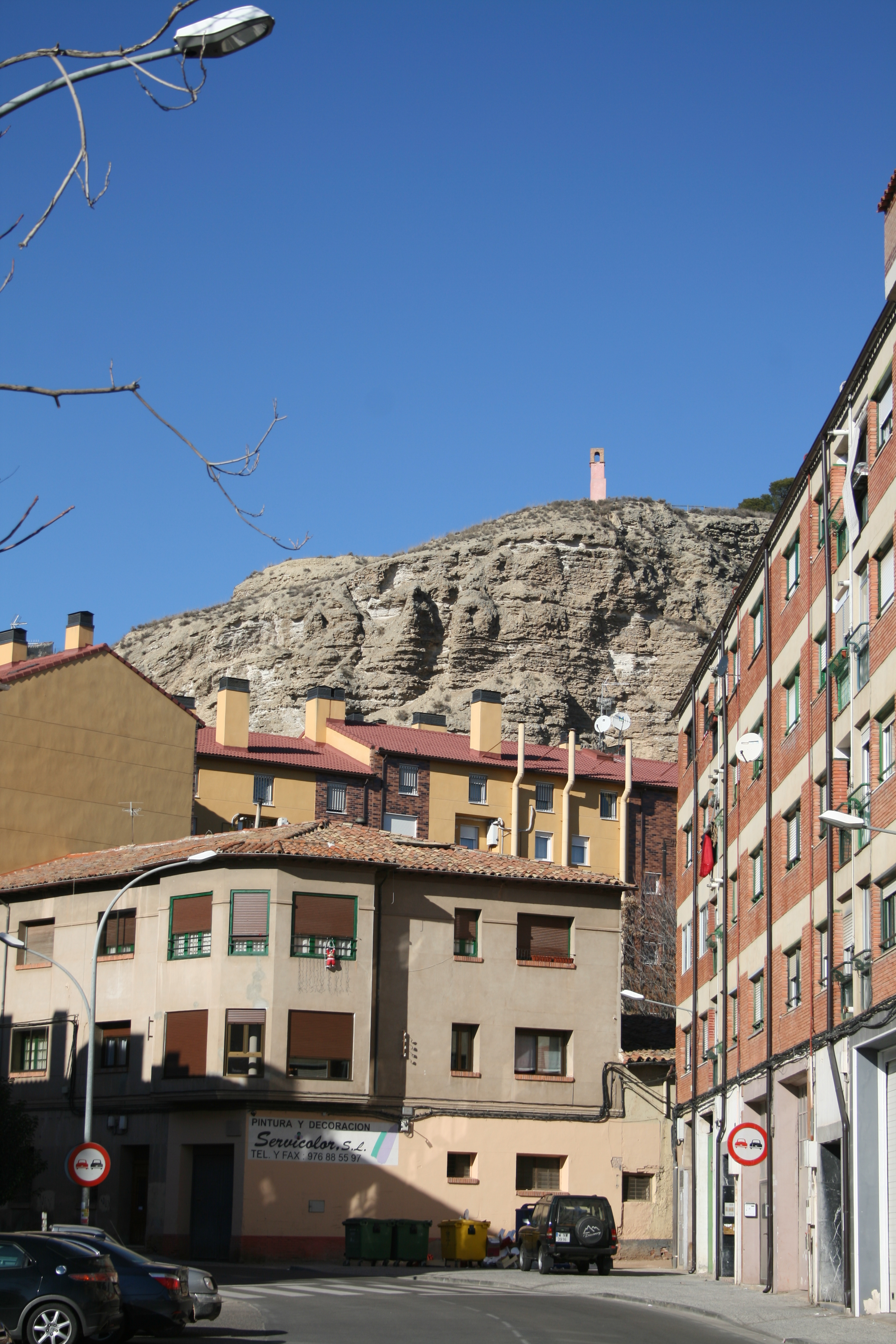 San Nicolás de Francia Street, Calatayud, Spain